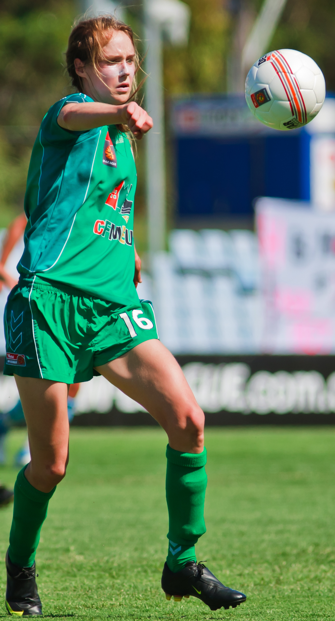 Ellyse Perry playing for Canberra United in the 2009 Australian W-League.